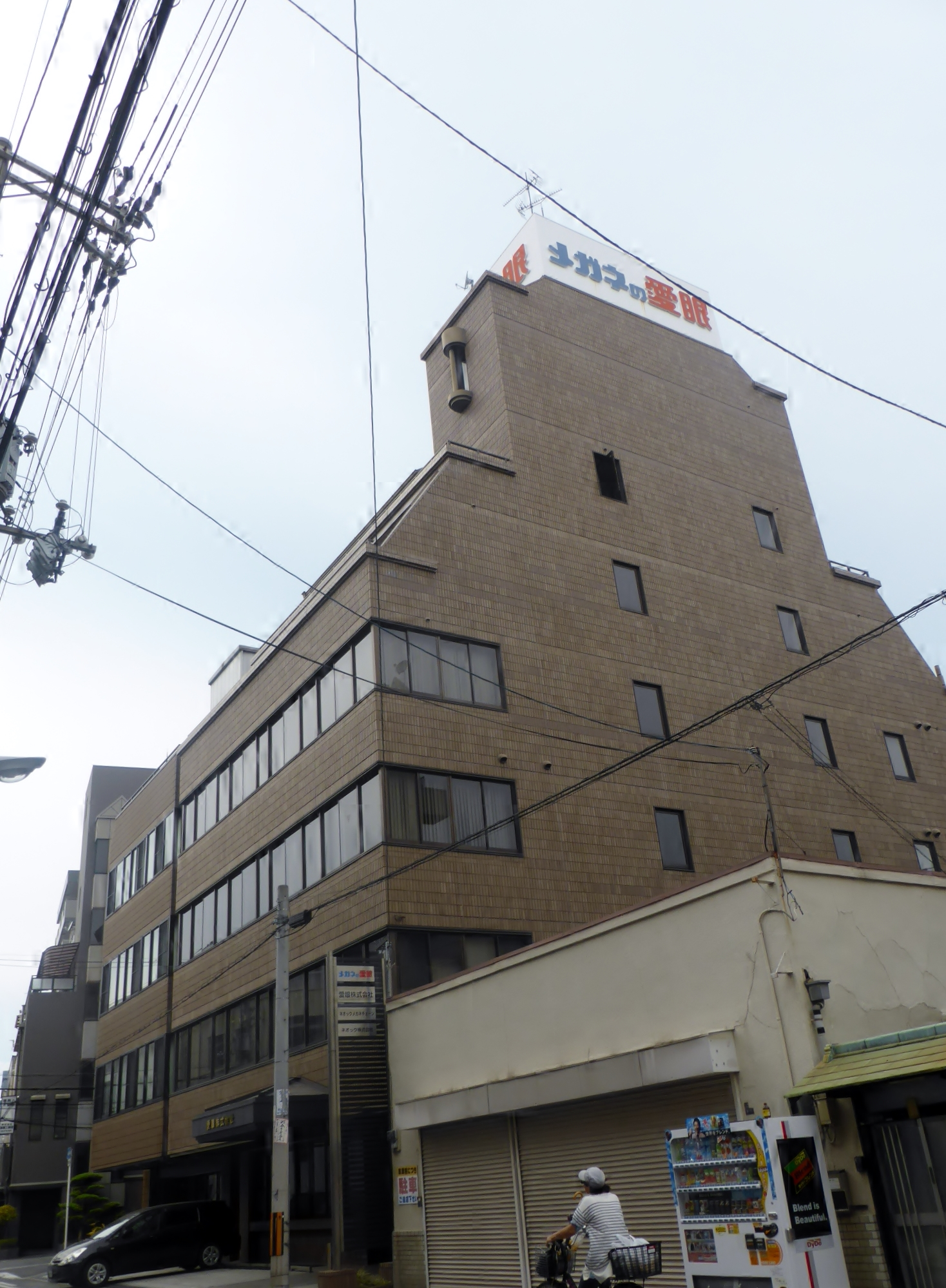 Aigan headquarters - 4-9-12 Daido, Tennoji-ku, Osaka, Osaka Pref.